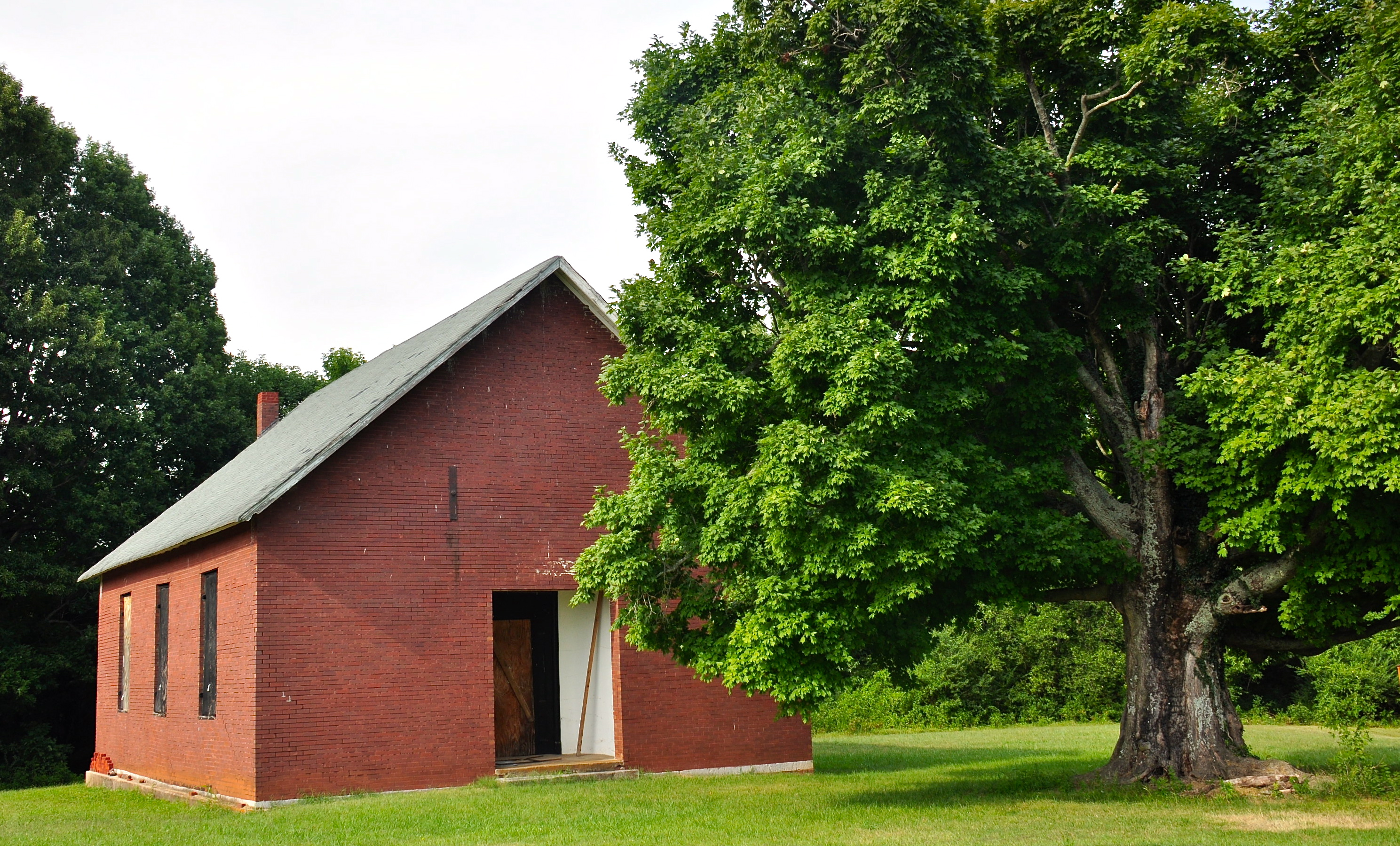 Beesley Primitive Baptist Church, 461 Beesley Rd. Murfreesboro